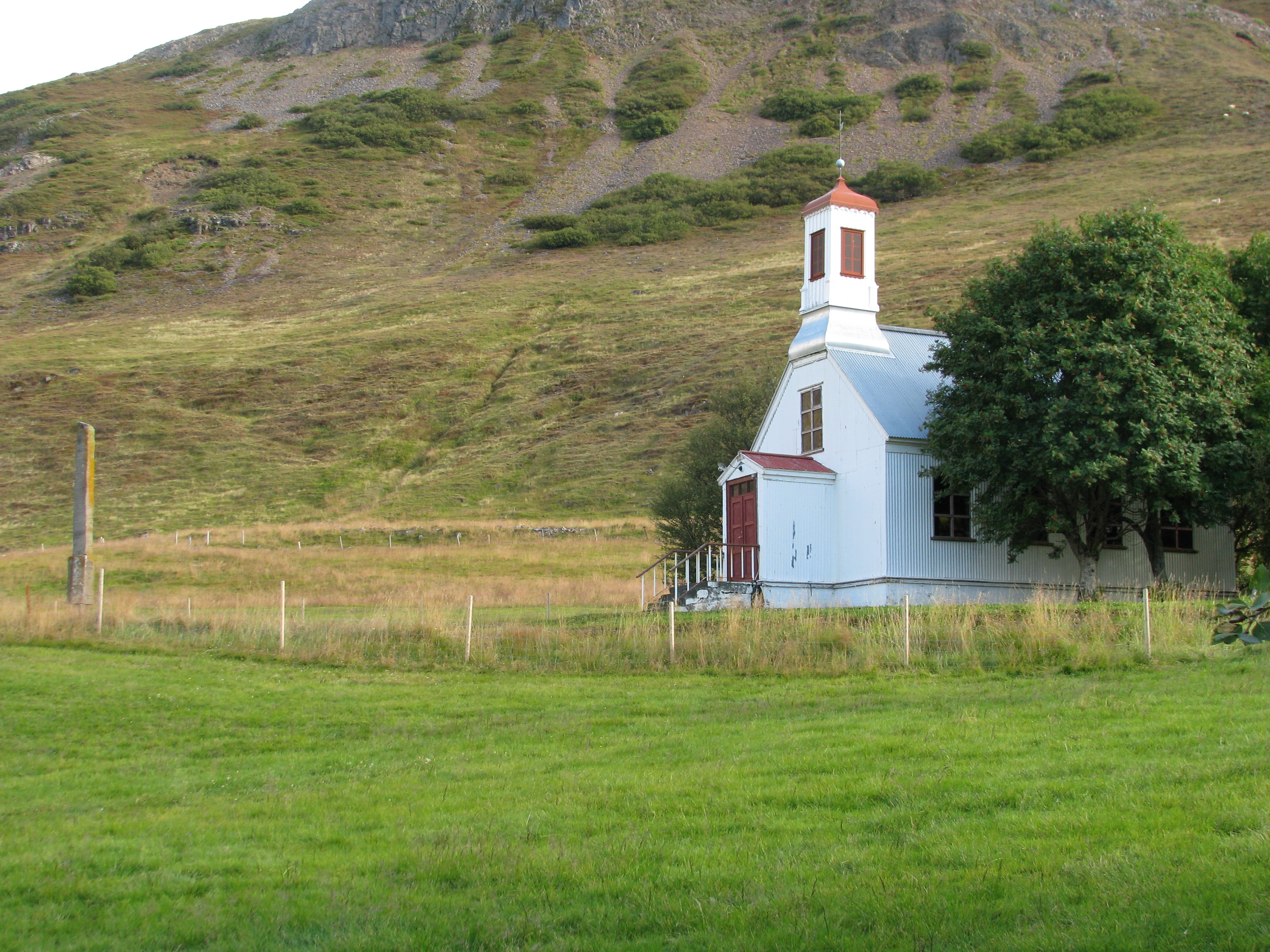 Hvammur, an parsonage in Iceland